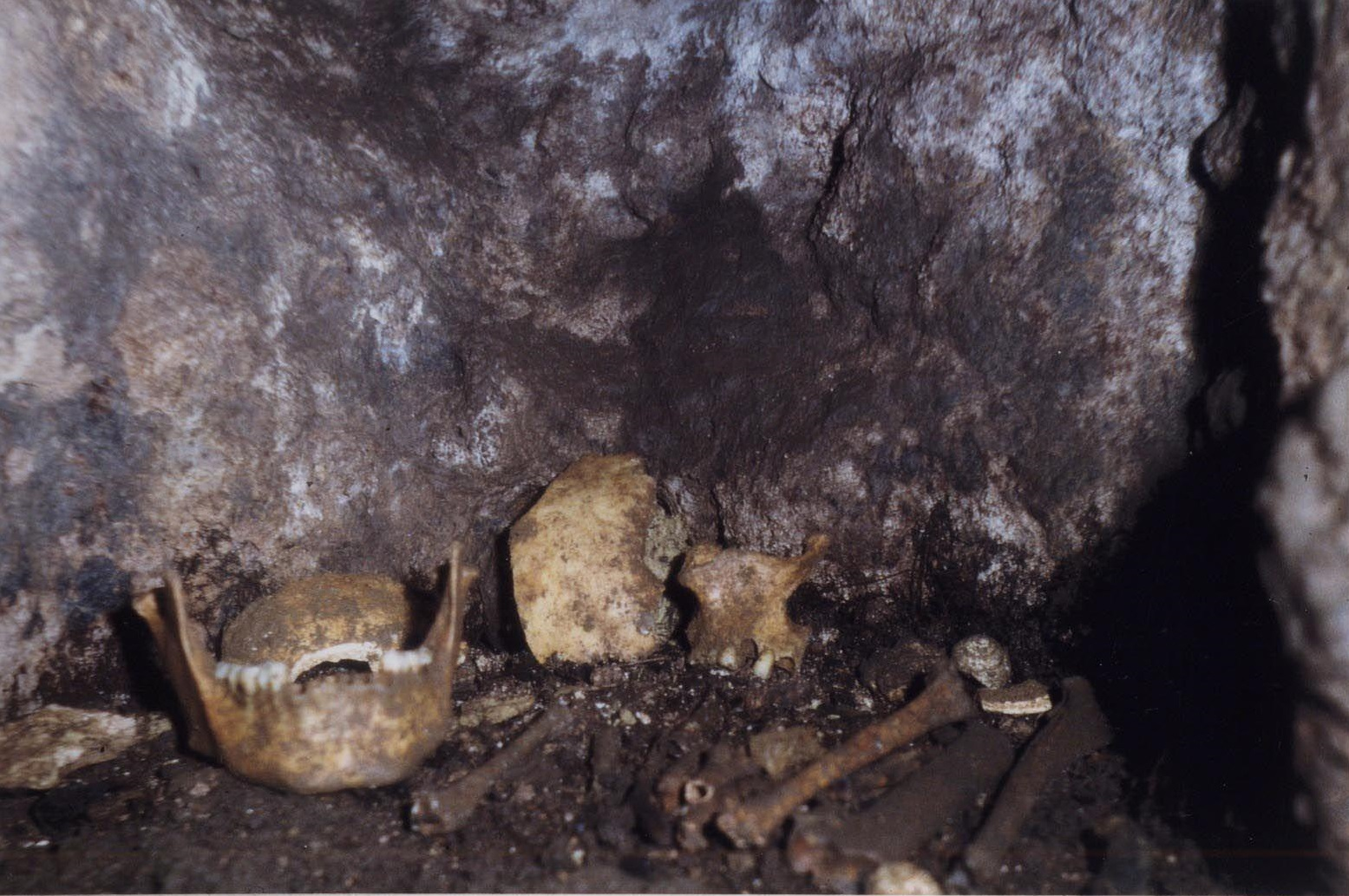 Döme Cave in Balatonederics, Hungary.